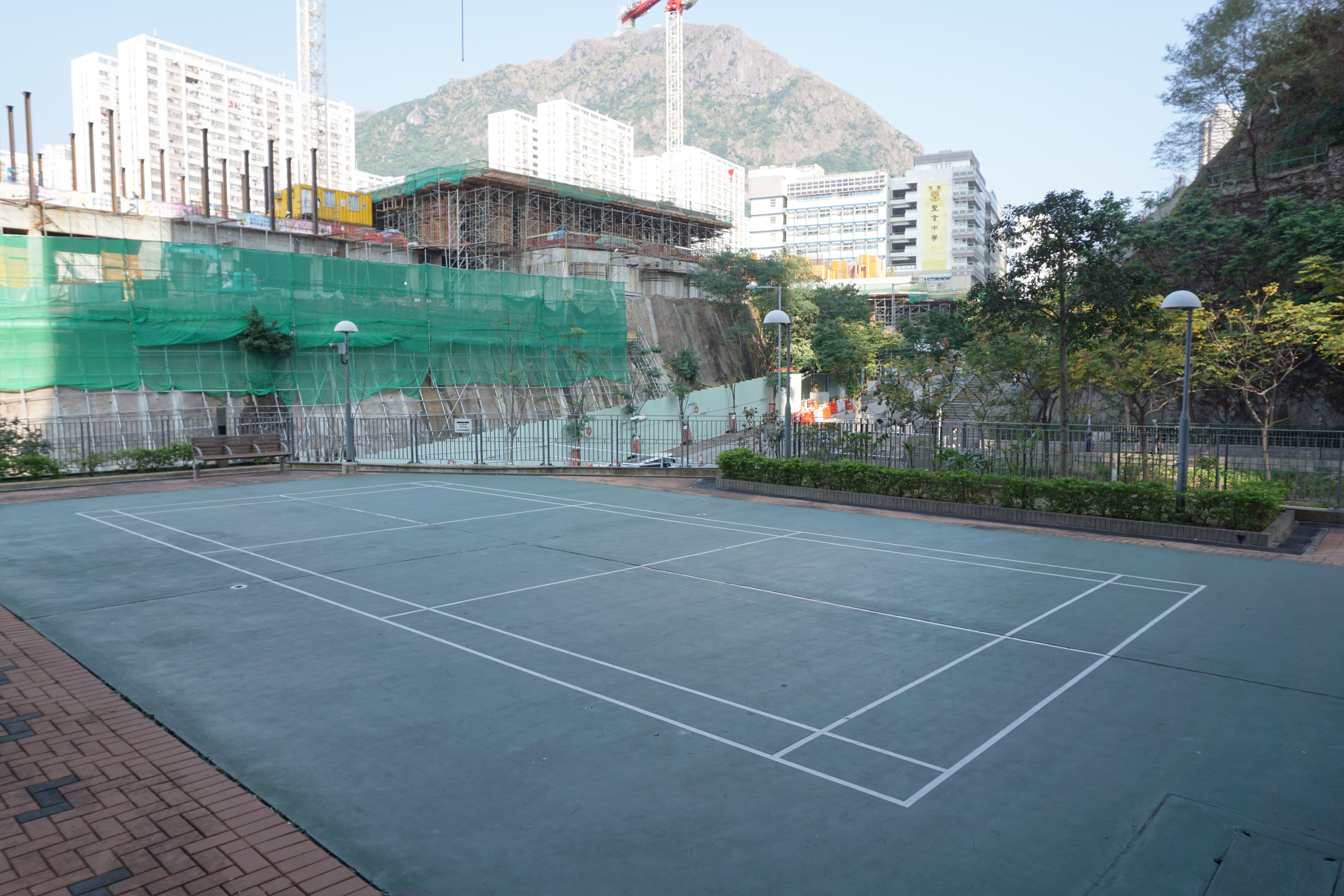 Choi Tak Estate in Kowloon Bay, Hong Kong.